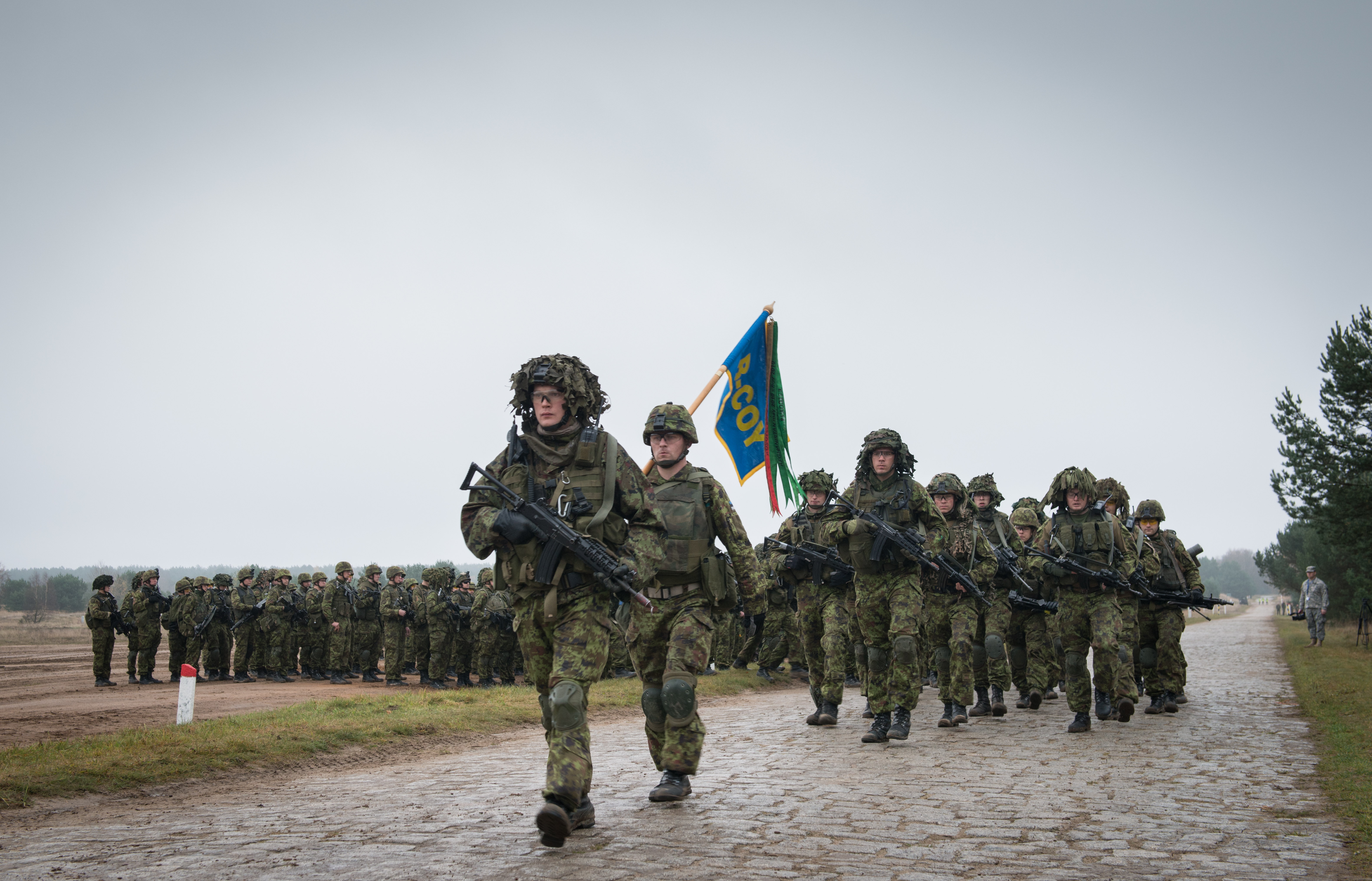 Estonian troops conduct a march past during the Opening Ceremony for Ex STEADFAST JAZZ on the Drawsko Pomorskie Training Area, Poland, on Nov. 3, 2013. Exercise Steadfast Jazz 2013 is taking place from 1-9 November in a number of Alliance nations including the Baltic States and Poland. The purpose of the exercise is to train and test the NATO Response Force, a highly ready and technologically advanced multinational force made up of land, air, maritime and special forces components that the Alliance can deploy quickly wherever needed. The Steadfast series of exercises are part of NATO’s efforts to maintain connected and interoperable forces at a high-level of readiness. (NATO photo/SSgt Ian Houlding GBR Army)